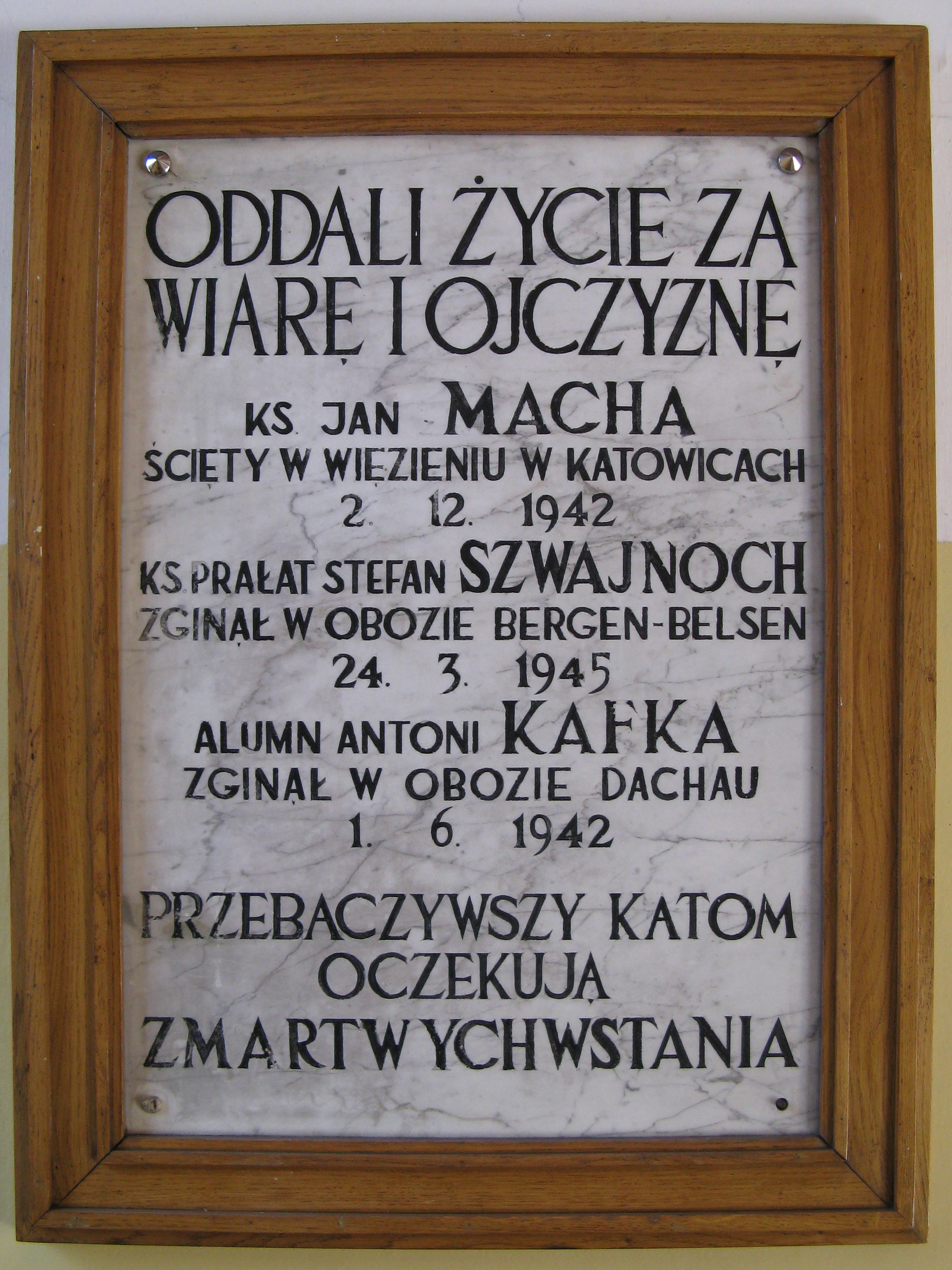 Commemorative plaque of Rev. Jan Macha, Rev. Stefan Szwajnoch and pupil Antoni Kafka, Mary Magdalene church in Chorzów Stary, Poland. Wikidata has entry Q11747135 with data related to this item.